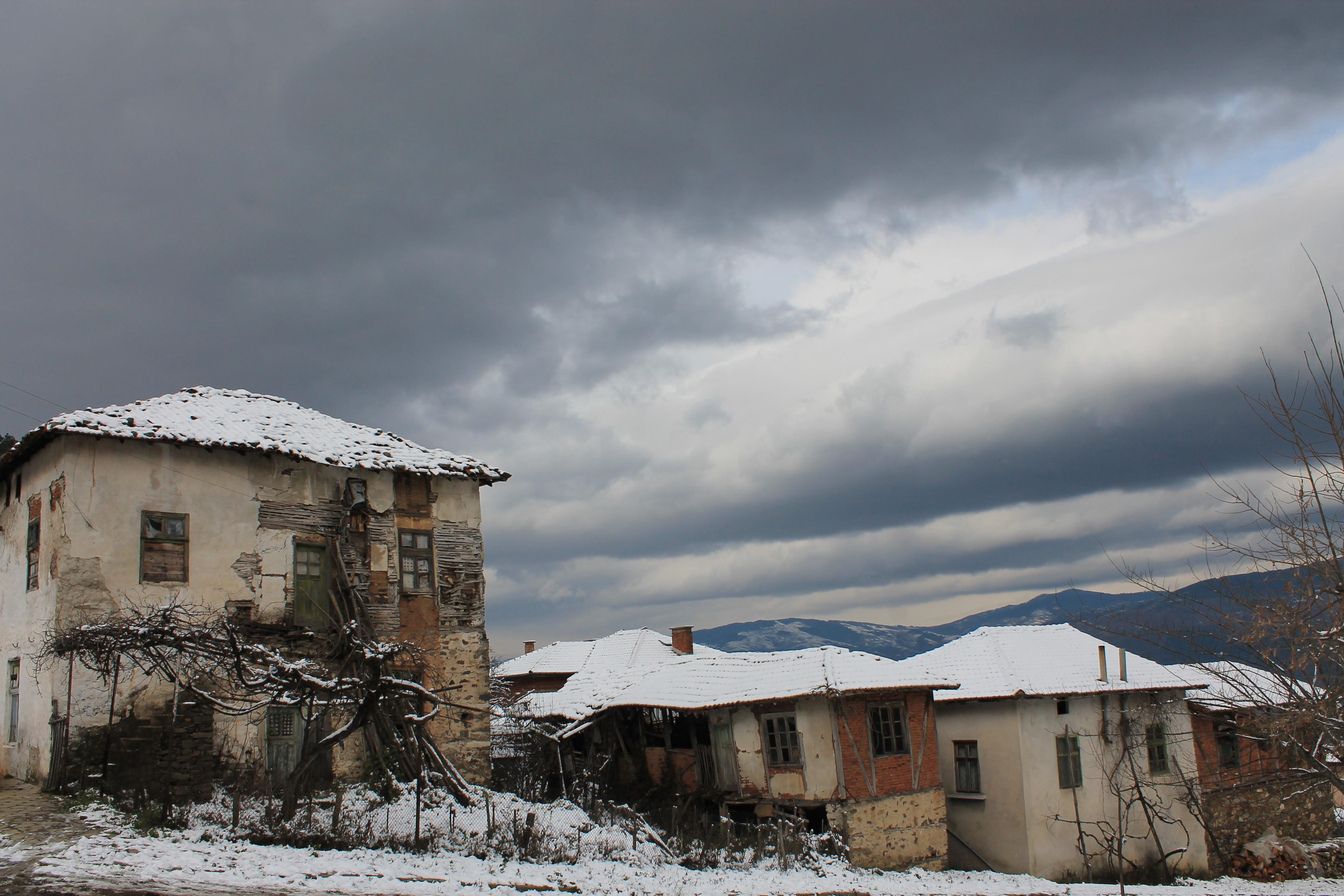 Winter view of Kamena, Bulgaria